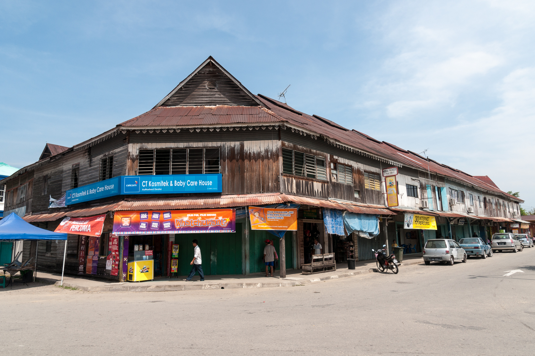 Bongawan, Sabah: Historic shop lots and colonial architecture in Bongawan